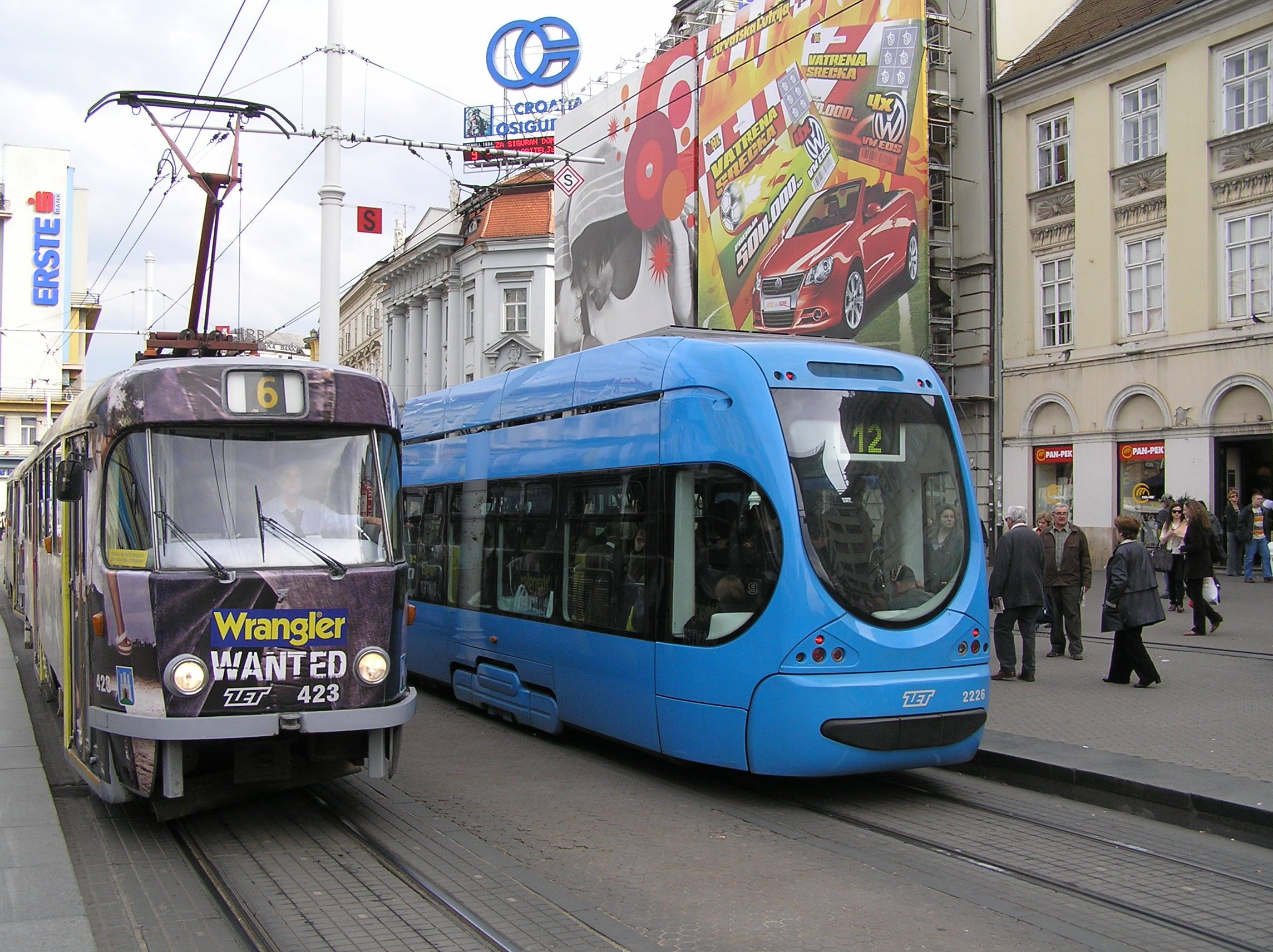 Crotram TMK 2200 tram (#2226) in Zagreb, Croatia. Built 2006. Tatra T4 tram too.